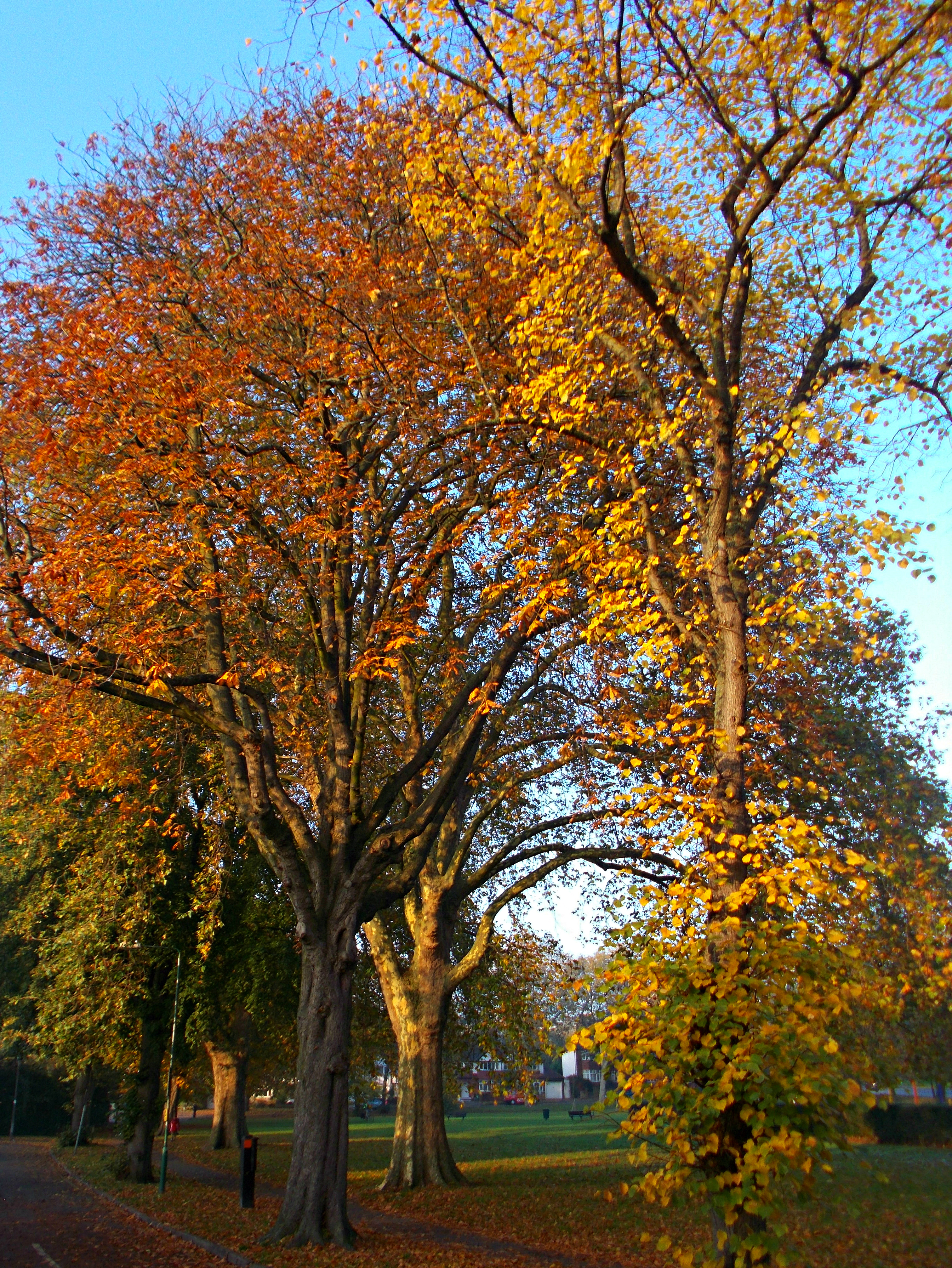 Autumnal trees on Sutton Green, an area of green space at the north end of the town of SUTTON (Surrey) within Greater London